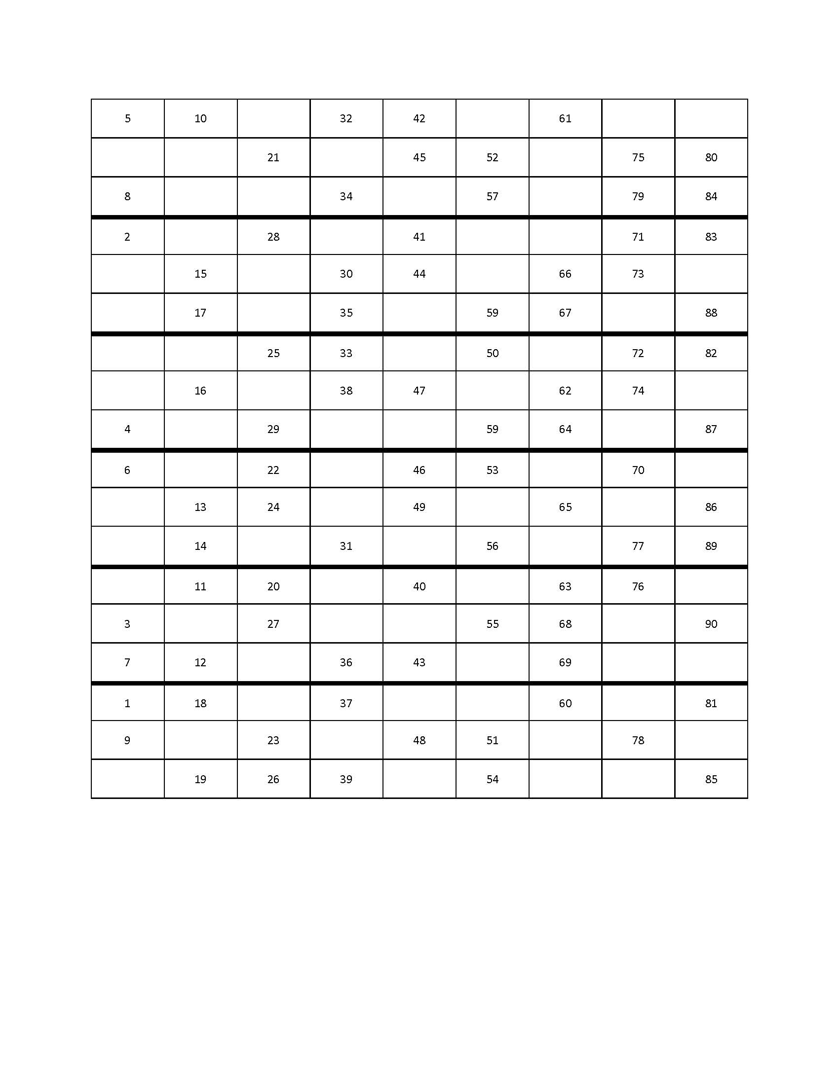 Full card